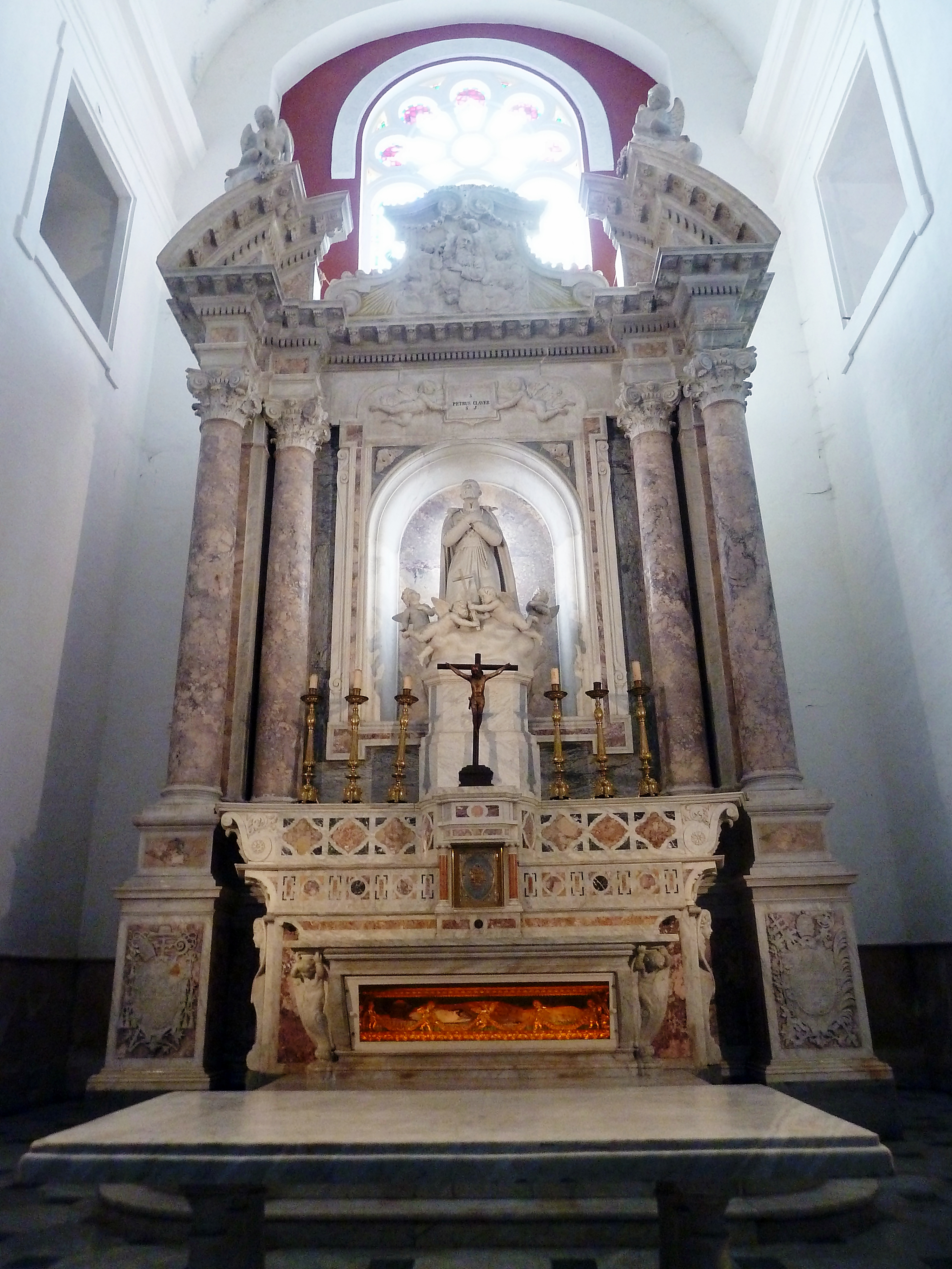 Iglesia de San Pedro Claver, Cartagena, Colombia.